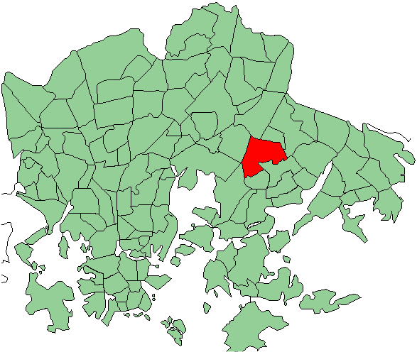 Districts of Helsinki, Myllypuro highlighted